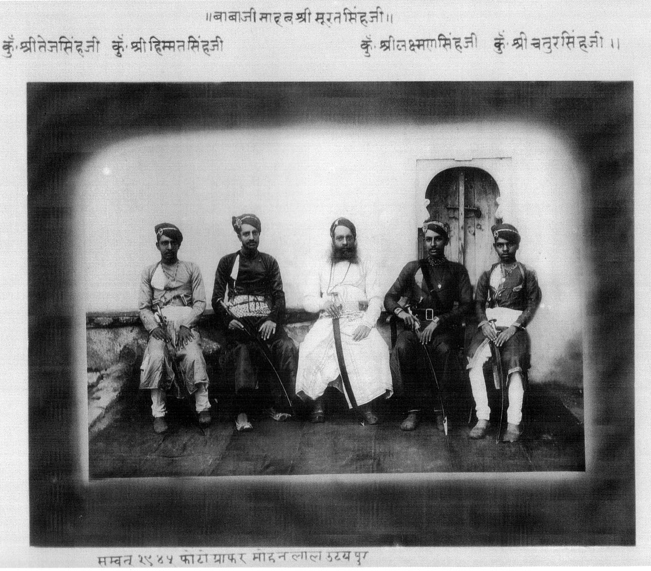 The earliest photographer of Udaipur, Madan Lal took this family portrait in the year AD 1888 of Maharaj Surat Singhji of Karjali (Center) with his four sons L-R, Kr. Tej Singh, followed by the eldest son Kr. Himmet Singh and second son Kr. Laxman Singh followed by young Bavji.